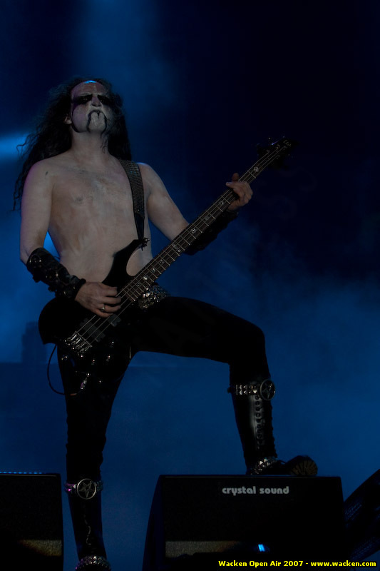 Apollyon during the Immortal concert at the 2007 Wacken Open Air.